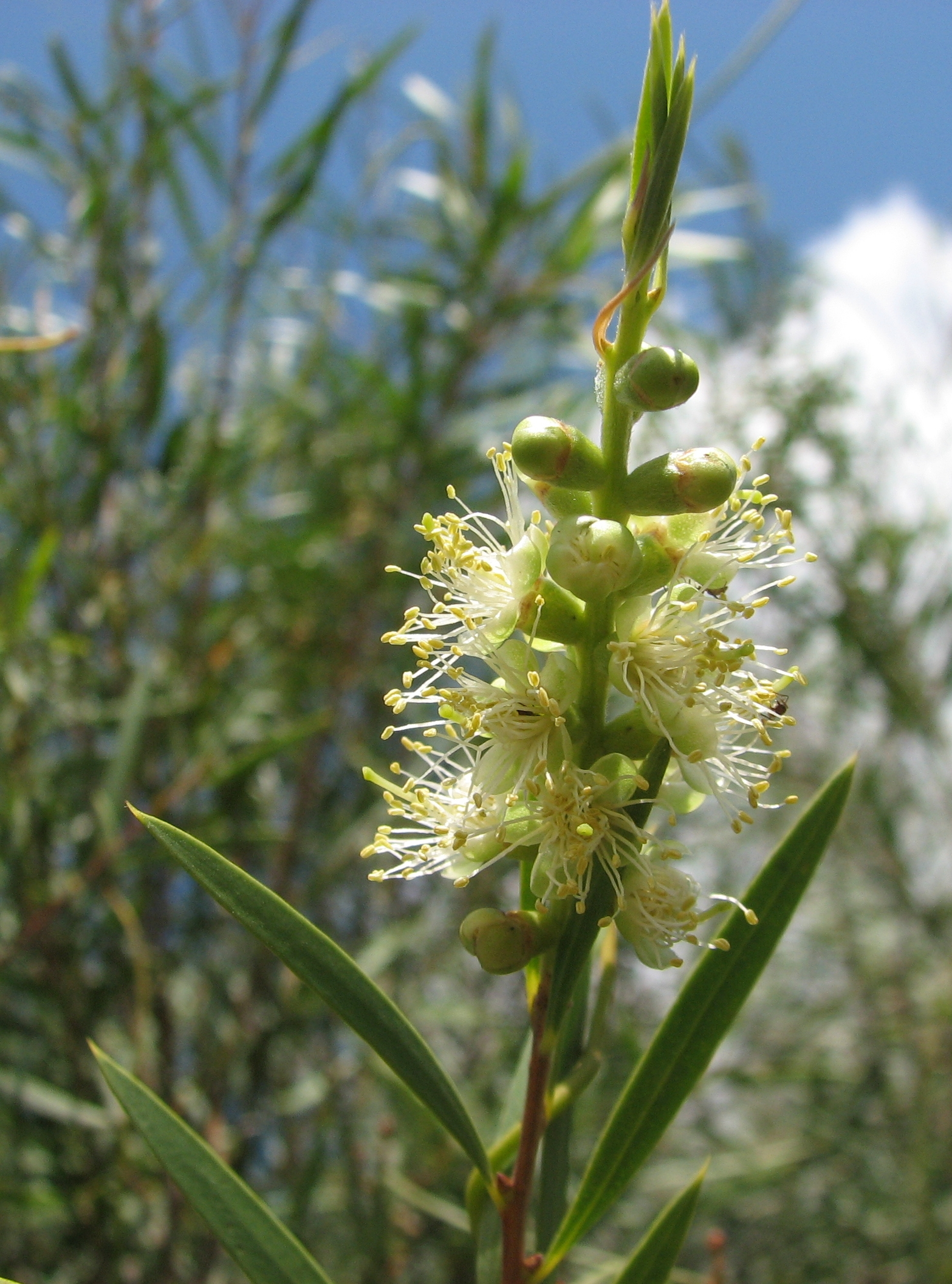 Callistemon pauciflorus (cultivated, labelled), Geelong Botanic Gardens, Victoria, Australia